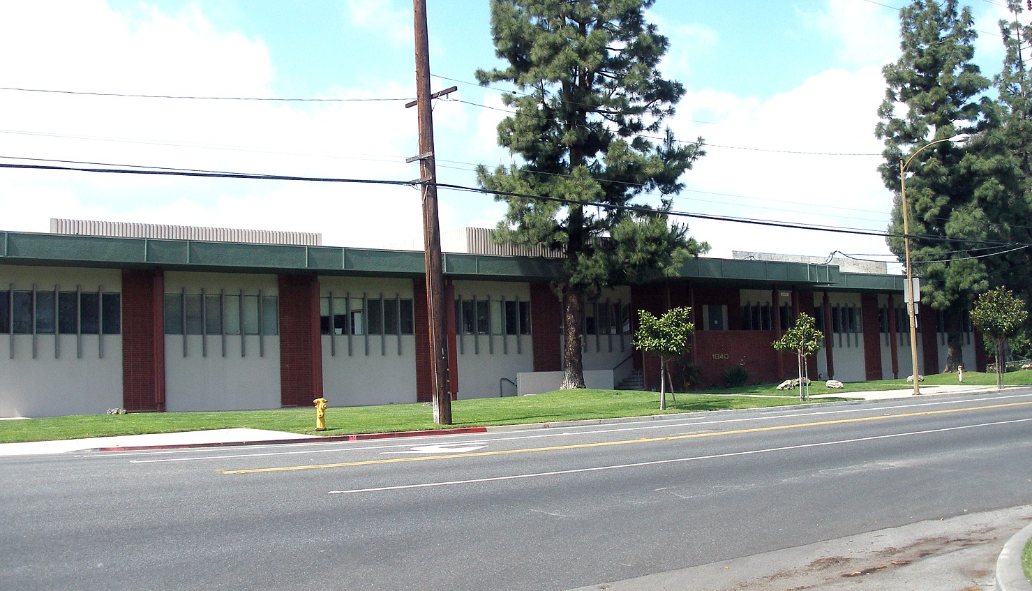 Victory Studios located in Glendale. Extra is based here. TV series Celebrity Justice and its successor, , were also based here; TMZ moved out in 2007 after launching TMZ on TV.